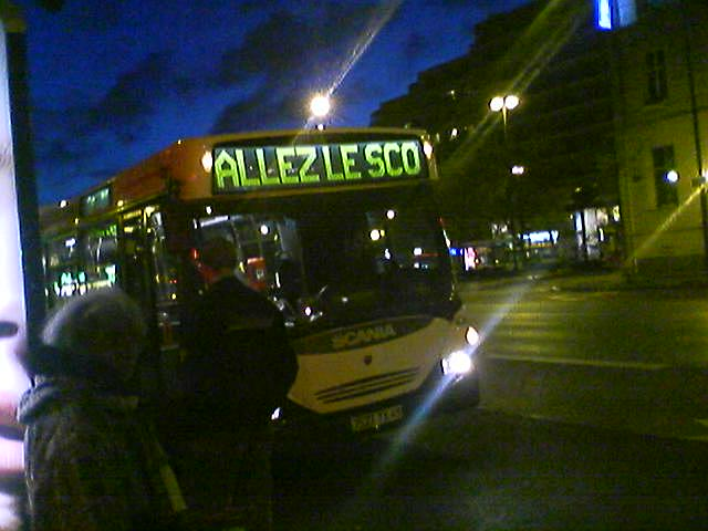 Scania CN94UB OmniCity or Scania CN94UA OmniCity in Angers, France. COTRA Angers company.